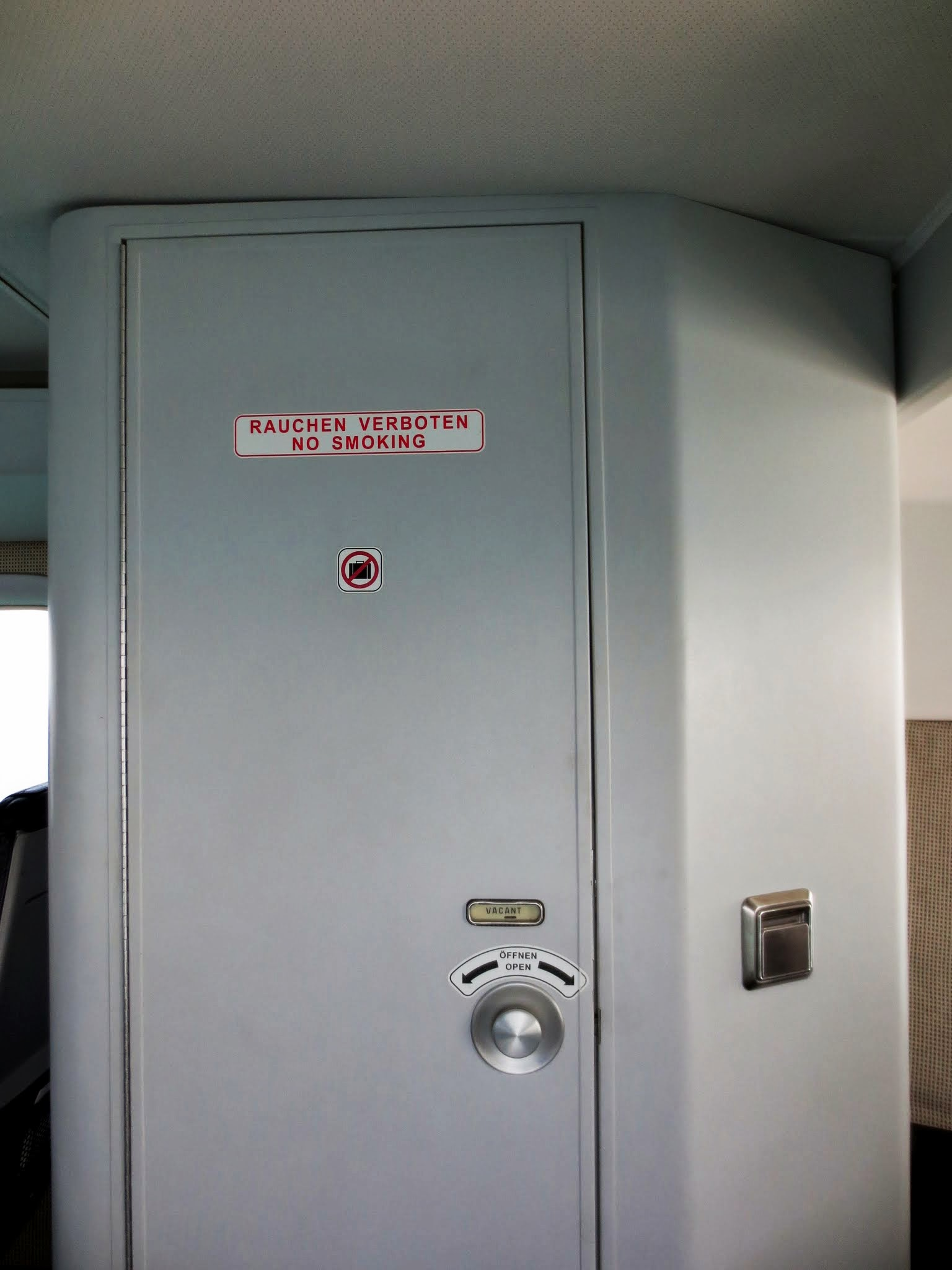 Zeppelin NT lavatory